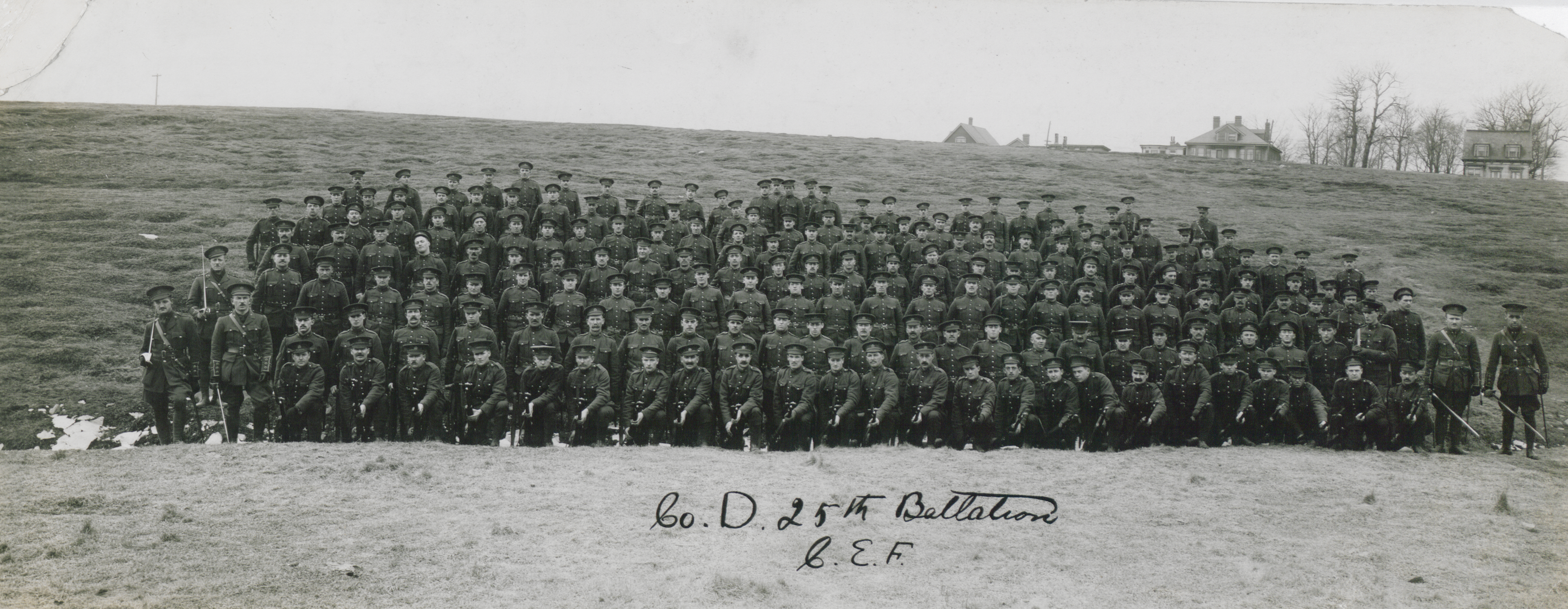 Original caption: “Company D 25th battalion Canadian Expeditionary Force.”